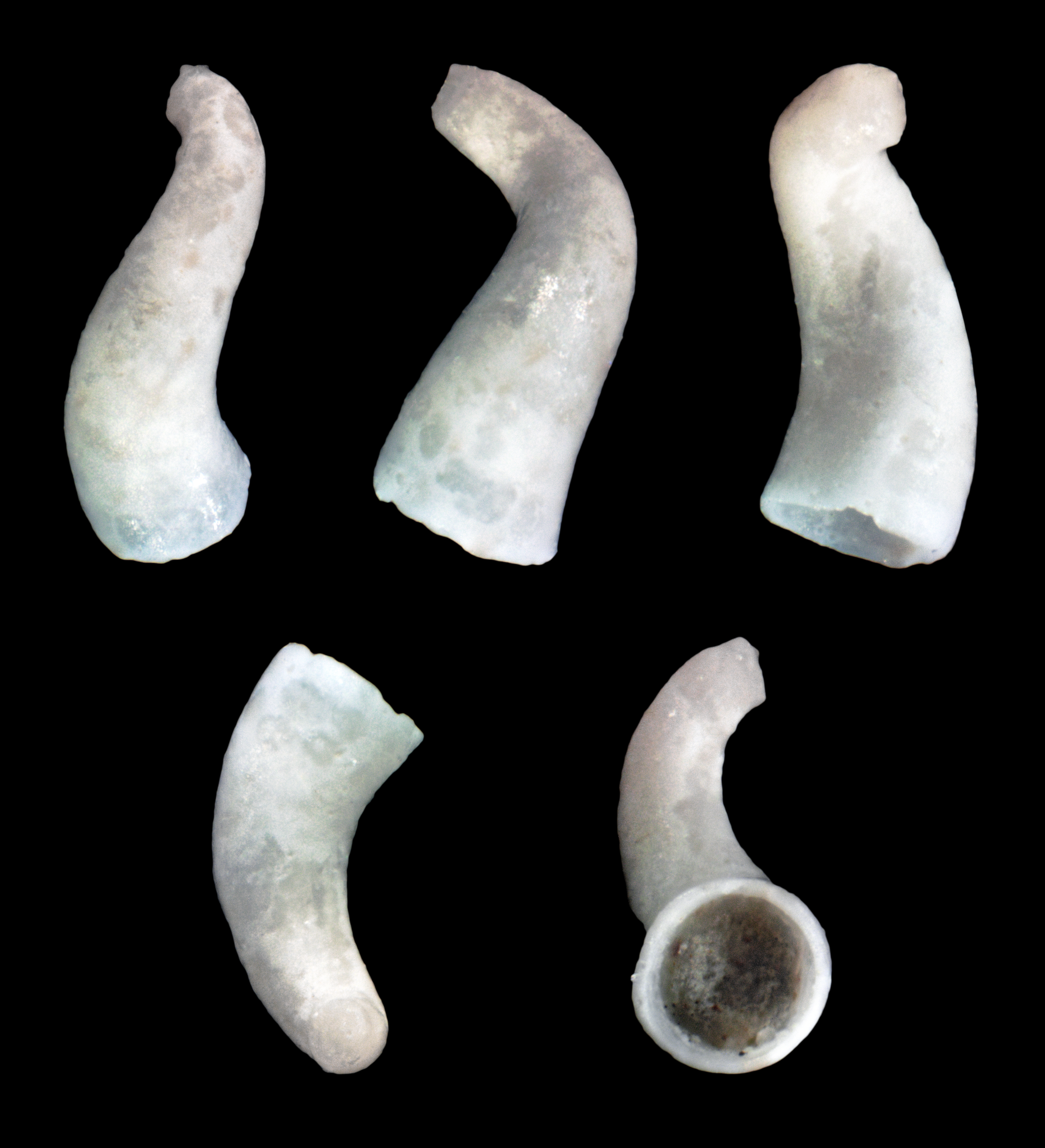 Parastrophia cornucopiae (Carpenter, 1858); Length 0.11 cm; Originating from Puerto Rico; Shell of own collection, therefore not geocoded.